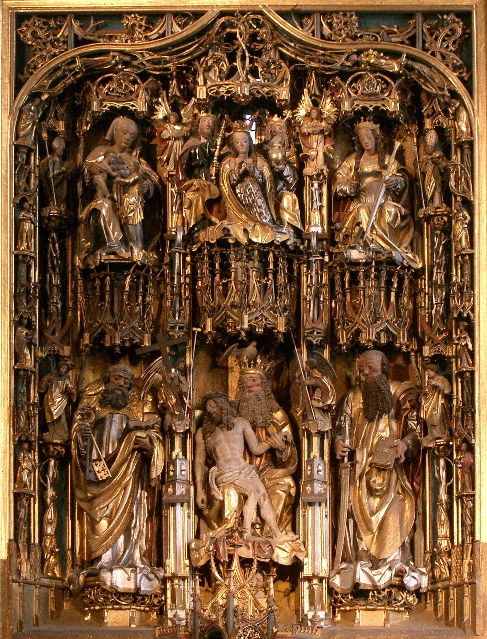 Niederlana, Italy. Parish church. Altar from Hans Schnatterpeck.